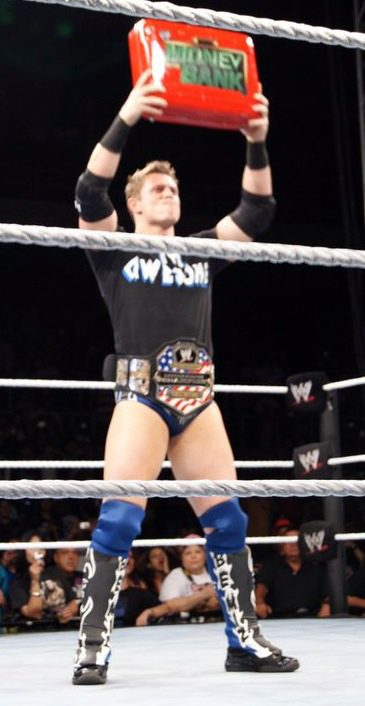 The Miz